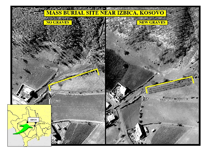 Satellite imagery of new mass burial site near Izbica, during Kosovo War in 1999.